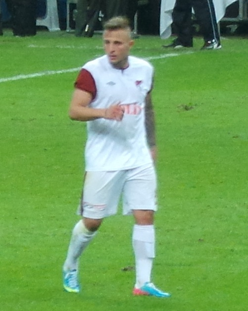 Aydın Karabulut vs GS